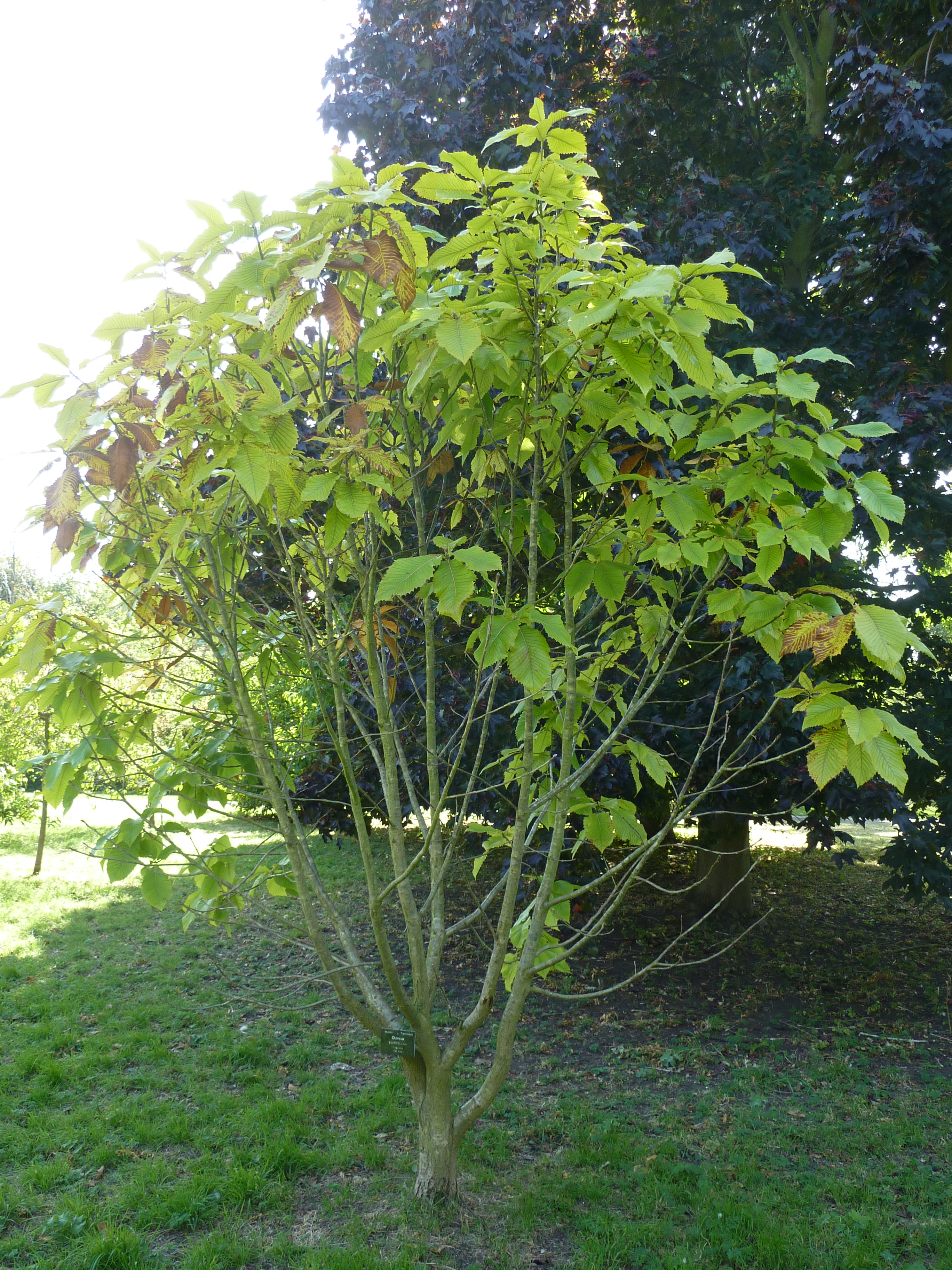 Armenian Oak (Quercus pontica) of the family Fagaceae